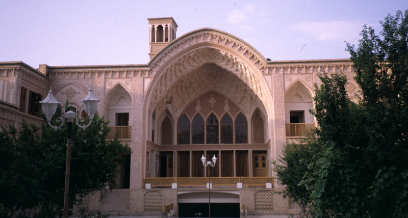 Āmeri House in Kashan, in Isfahan Province, Iran